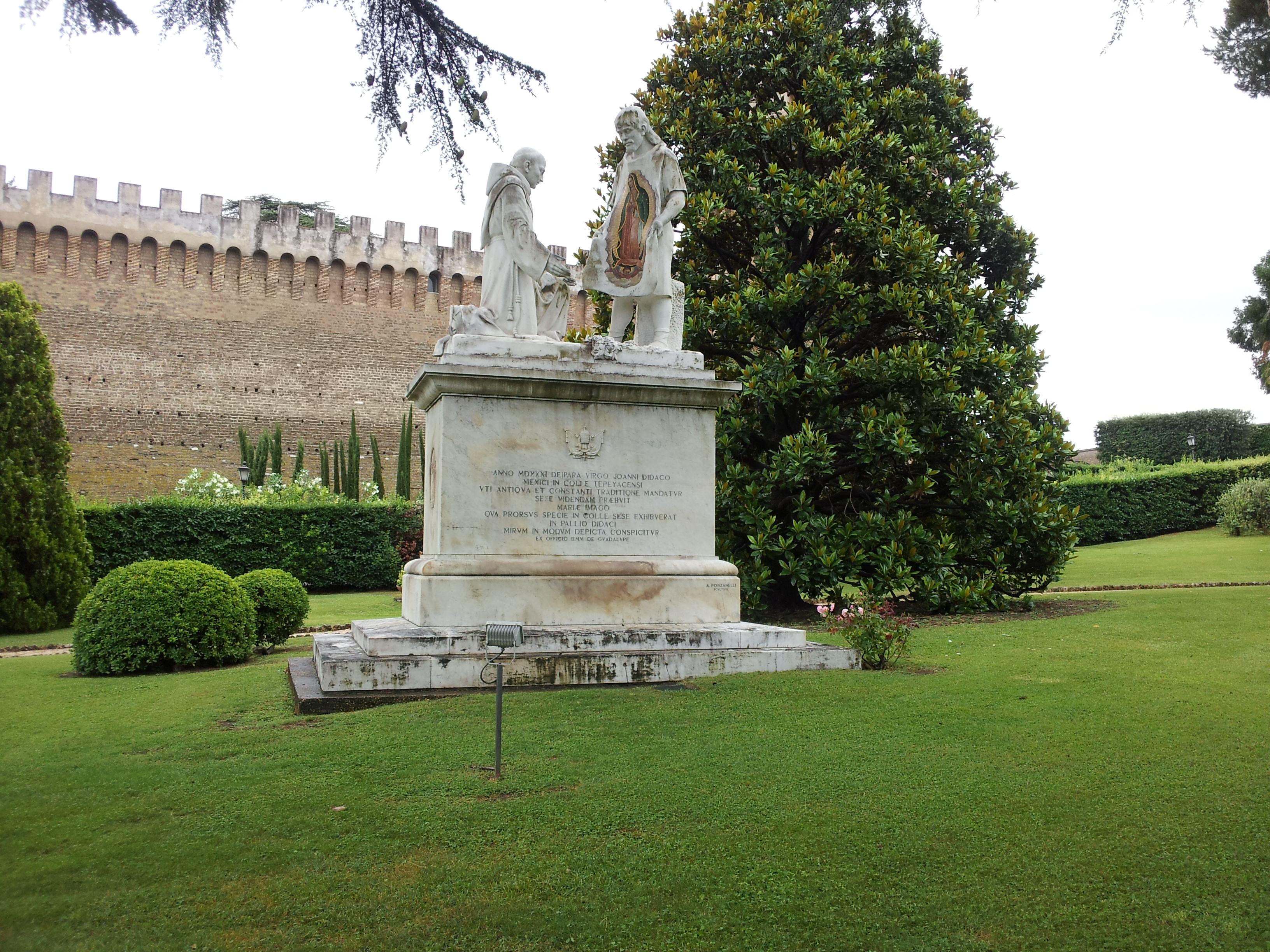 Saint Juan Diego showing the image of Our Lady of Guadalupe inside his cloak to Bishop Juan de Zumárraga. Statue in the Giardino americano section of the Vatican Gardens. In the background: The Leonine walls.